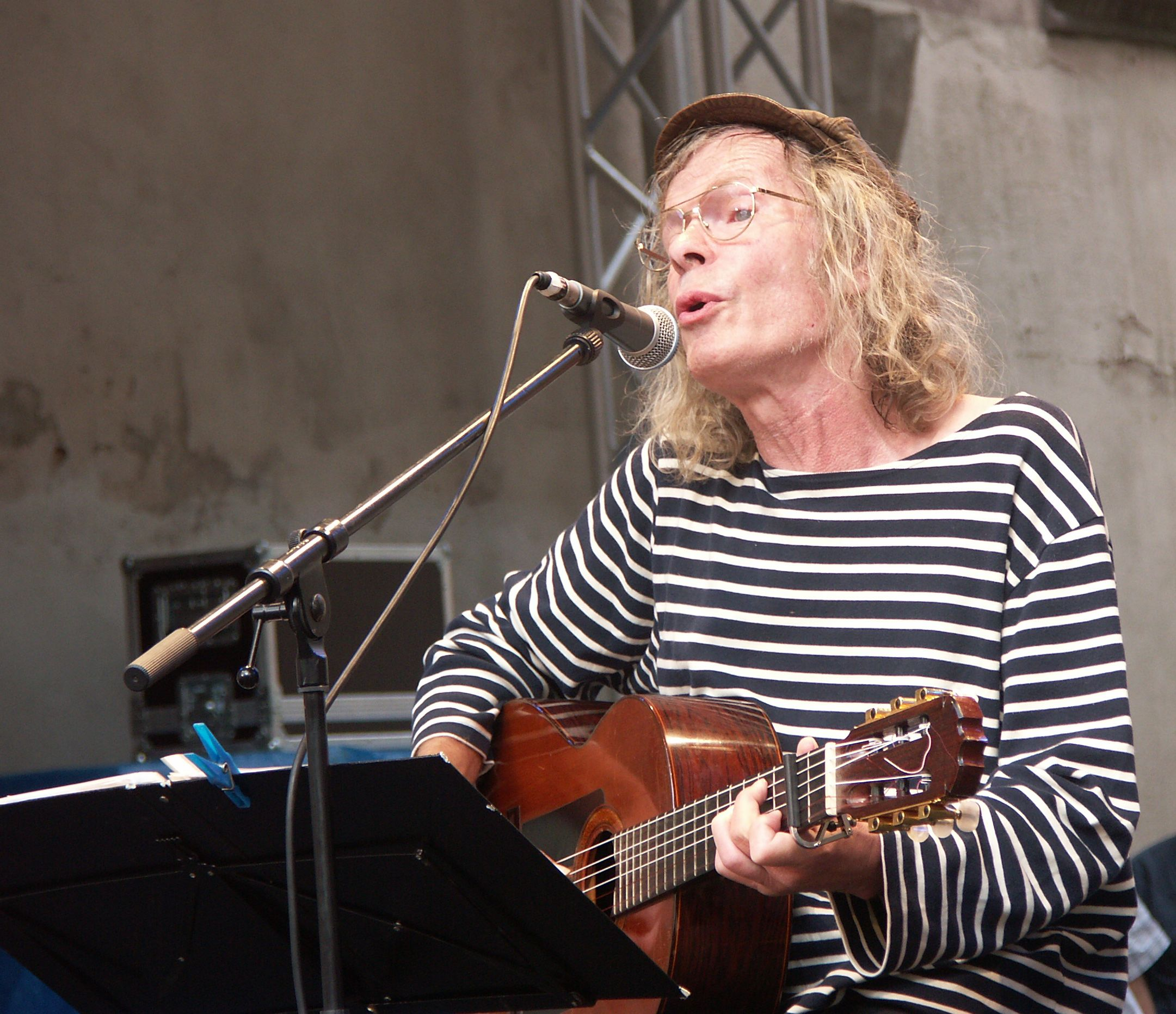 Thomas Friz, folk singer-songwriter from Germany, performing at the free festival "Bardentreffen" 2008 in Nuremberg / Germany